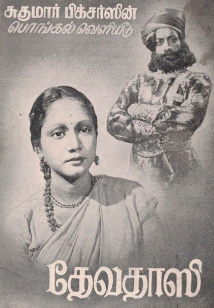 Poster for the 1948 South Indian Tamil film Devadasi